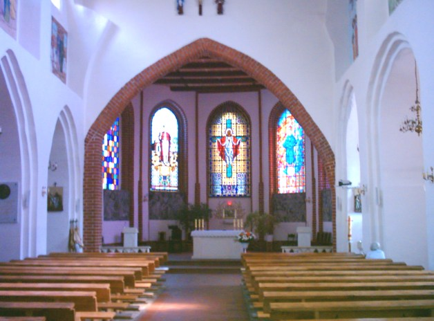 Sacred Heart church in Łobez, Poland